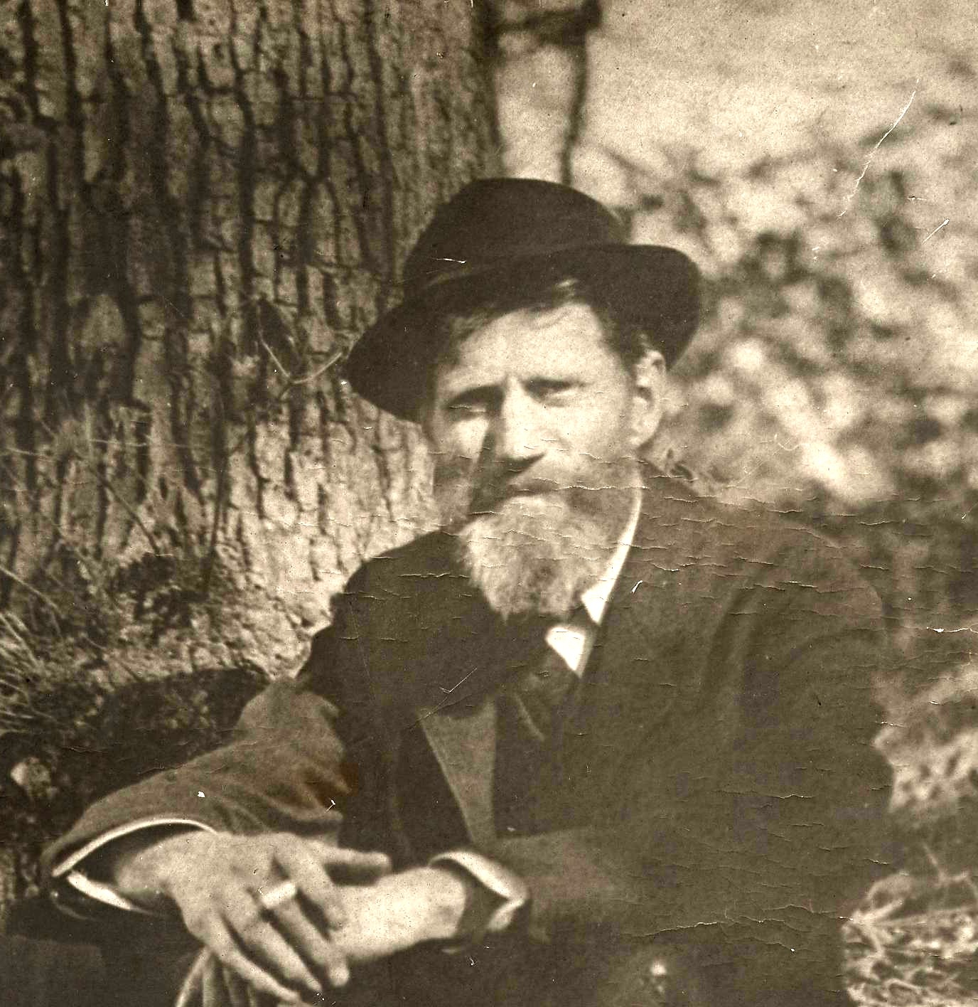 Description: Carlsen seated on the ground by a tree. Inscription on lower right: "Emil Carlsen". Published in: Archives of American Art Journal v. 9, no. 3, p. 17. Carlsen, Emil, 1853-1932 Creator/Photographer: Unidentified photographer Medium: Black and white photographic print Dimensions: 18 cm x 19 cm Date: c. 1910 Persistent URL: [1] Repository: Archives of American Art Collection: Macbeth Gallery Records, c. 1890-1964 Accession number: aaa_macbgall_4643